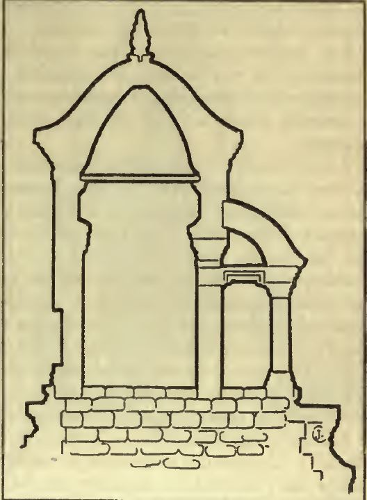 Angkor Wat gallery